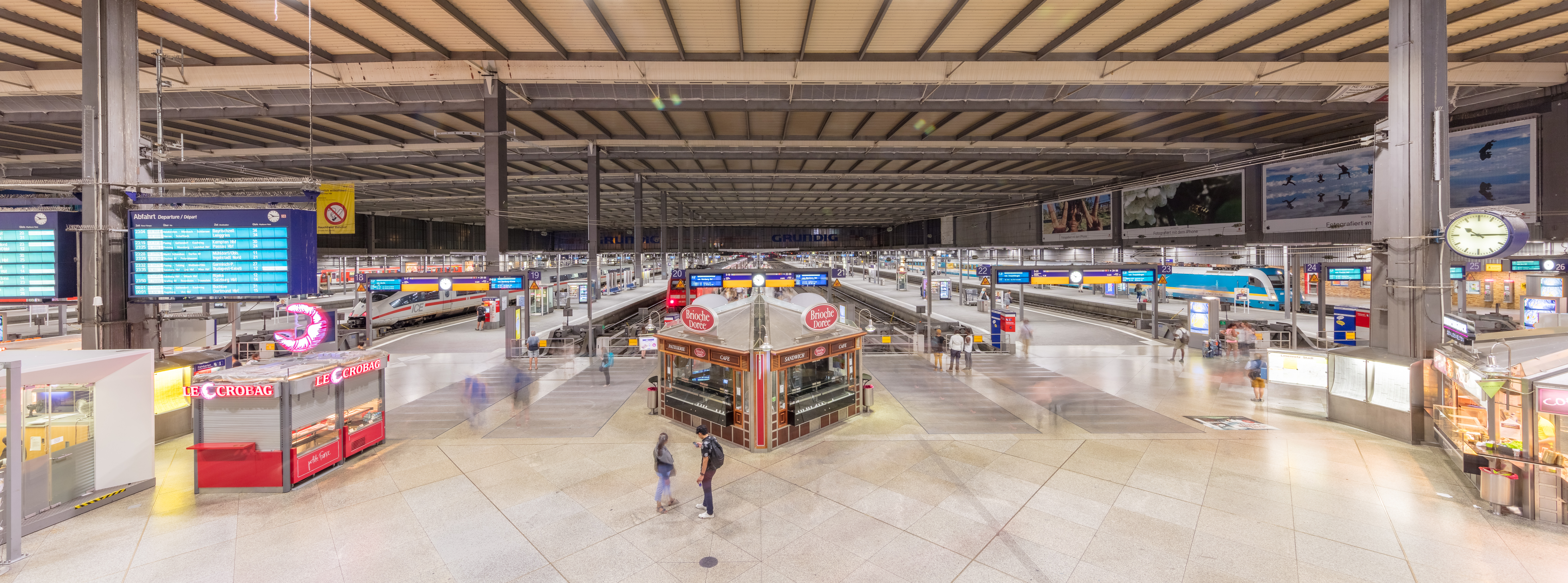 Main hall of the central railway station, Munich, GermanyThis is a photograph of an architectural monument.